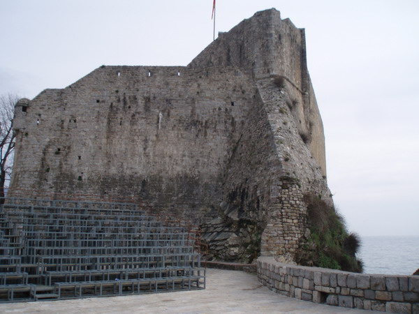 Old Town Budva - citadela